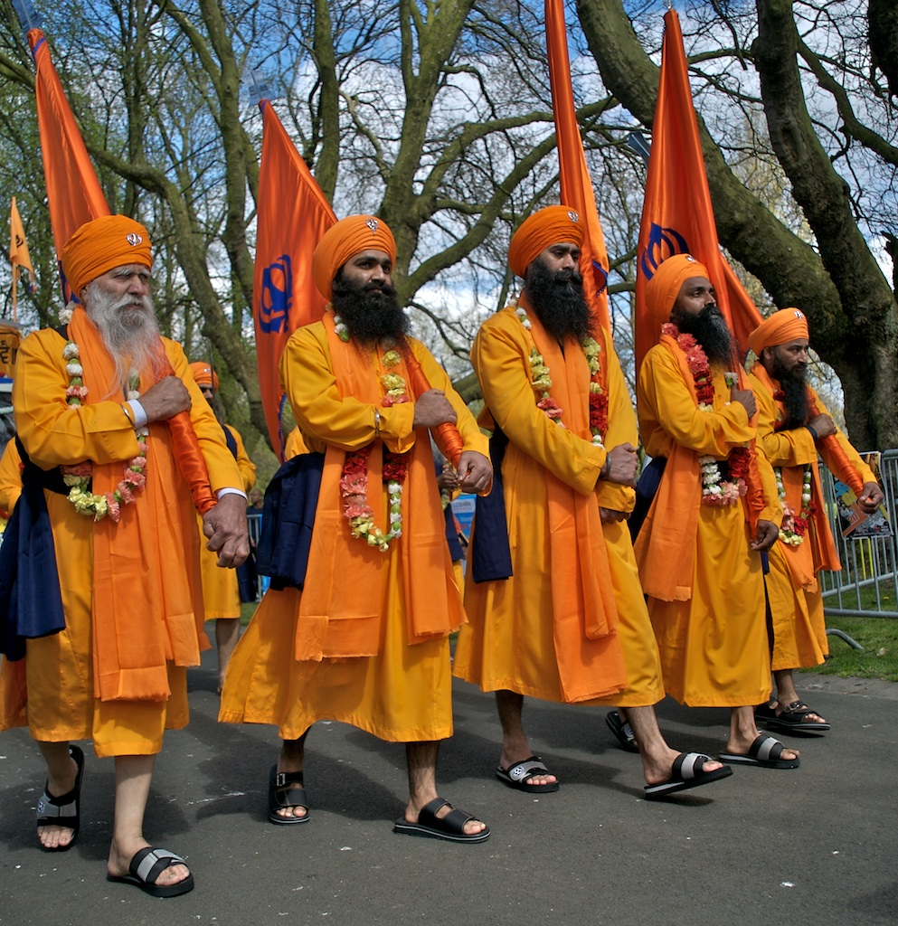 The Panj Pyare at Vaisakhi 2010 Birmingham, UK